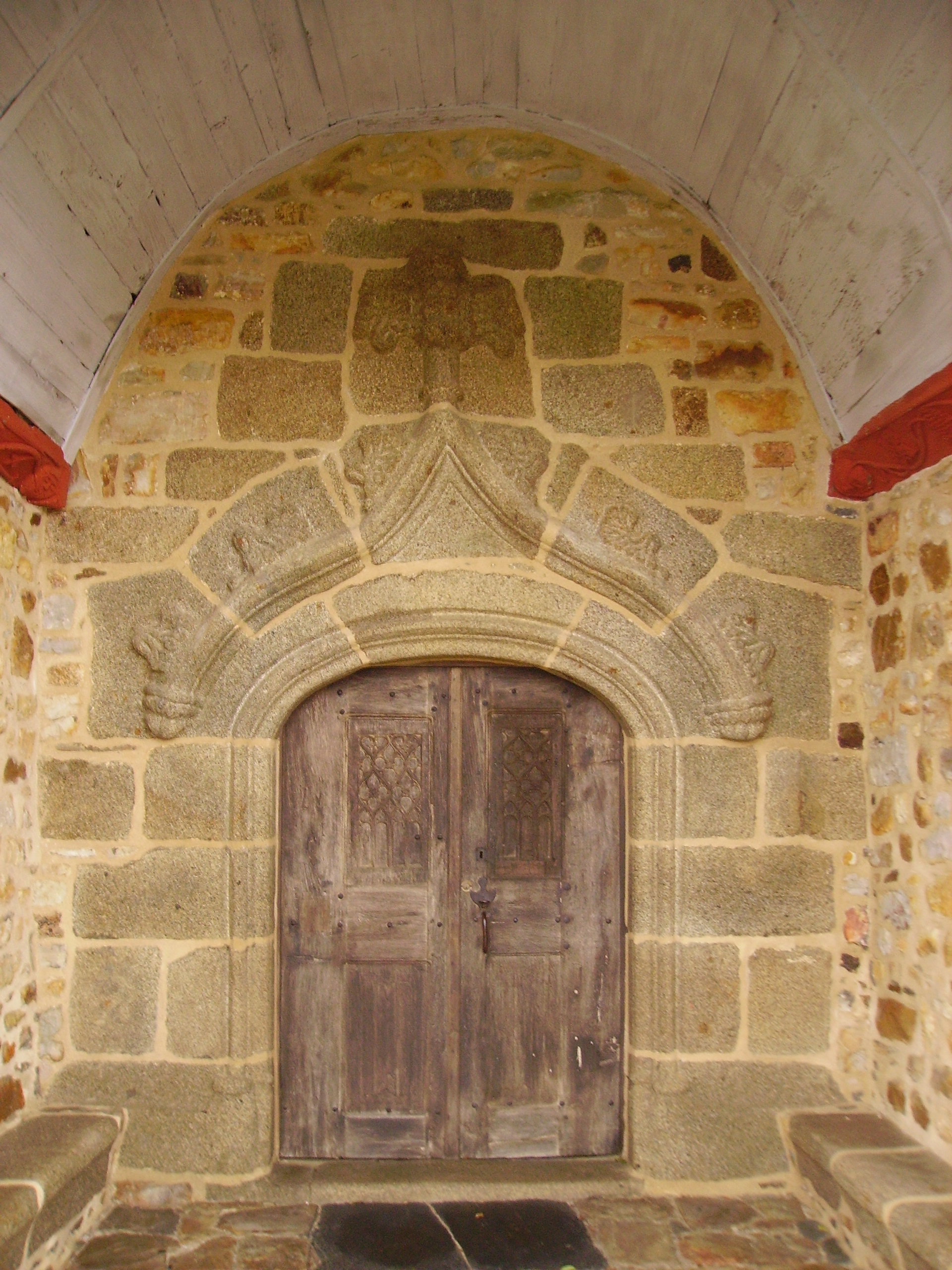 XVIth's door of south porch from the church of Saint-Georges-de-Chesné (Brittany, France).